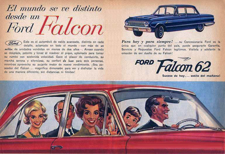 A Ford Falcon advertisement made in Argentina.